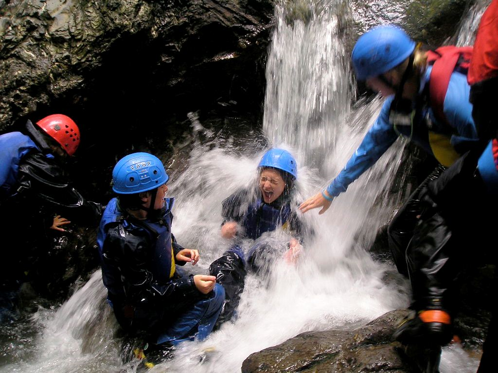 Ghyll scramble2